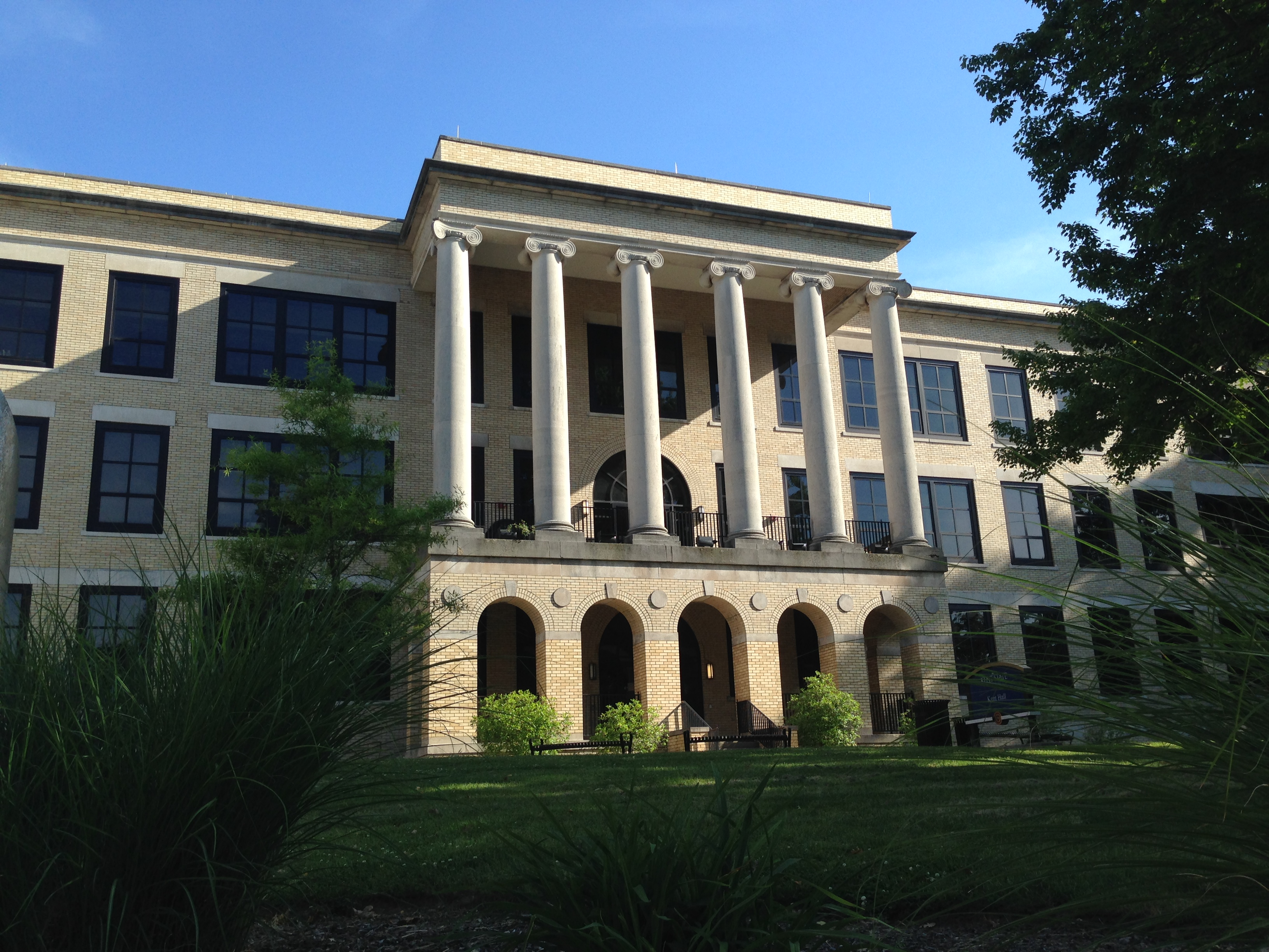 Front of Kent Hall on the campus of Kent State University in Kent, Ohio, United States. Kent Hall was originally known as Science Hall and was built in 1915. It forms part of the original KSU campus and the Ohio State Normal College at Kent historic district on the National Register of Historic Places.